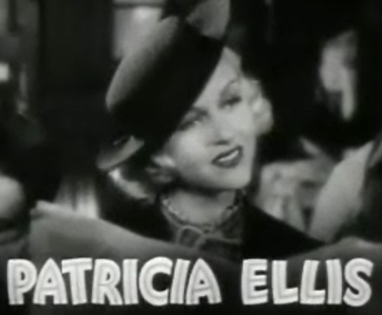 Cropped screenshot of Patricia Ellis from the trailer for the film Bright Lights.